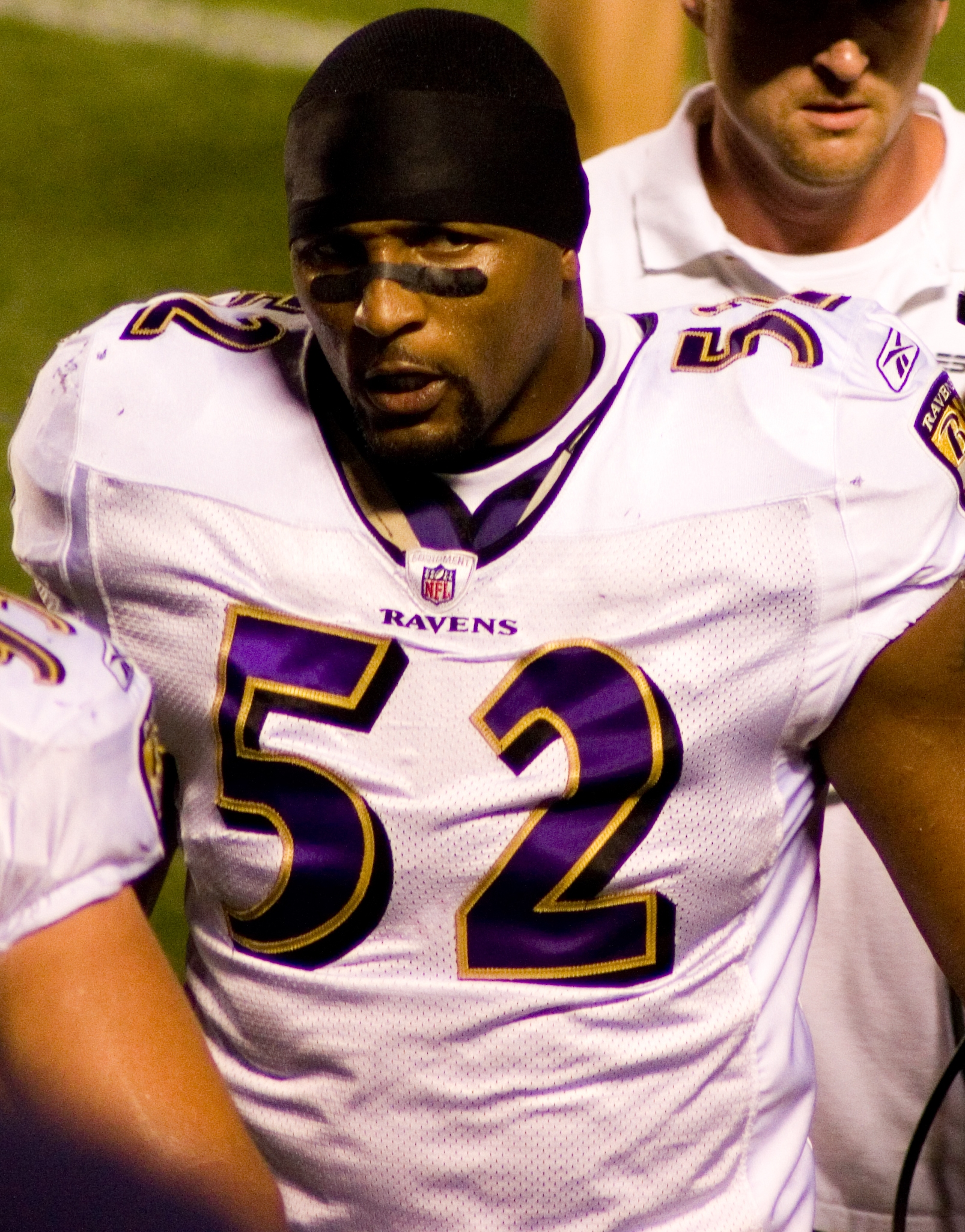 Baltimore Ravens linebacker Ray Lewis at the 2008 regular season game against the Pittsburgh Steelers